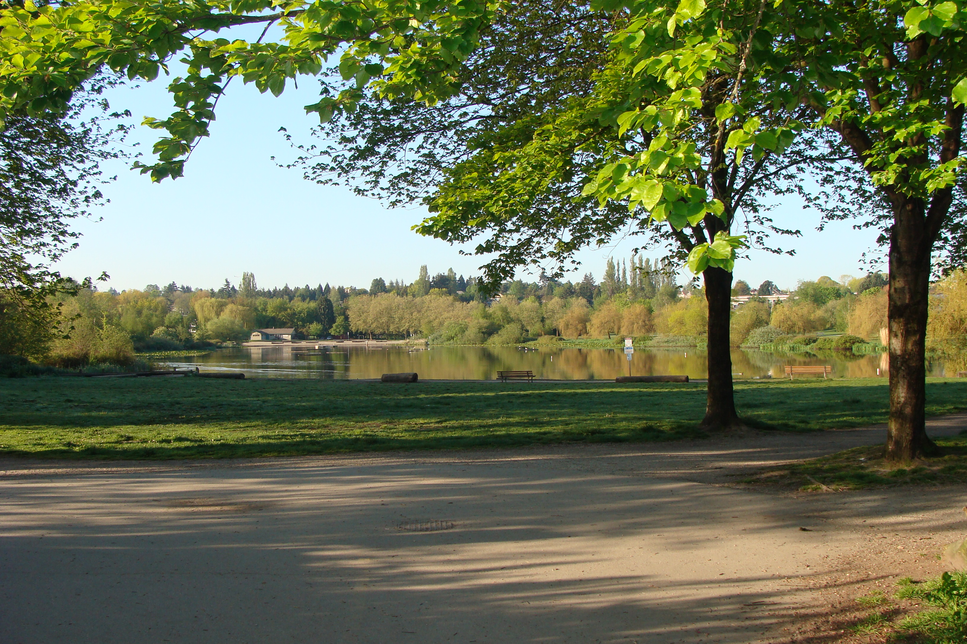 Trout Lake dogs beach